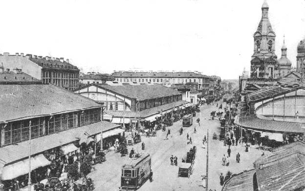 The Brush singles at Sadovaya Street. Sennoy food market. Near 1910